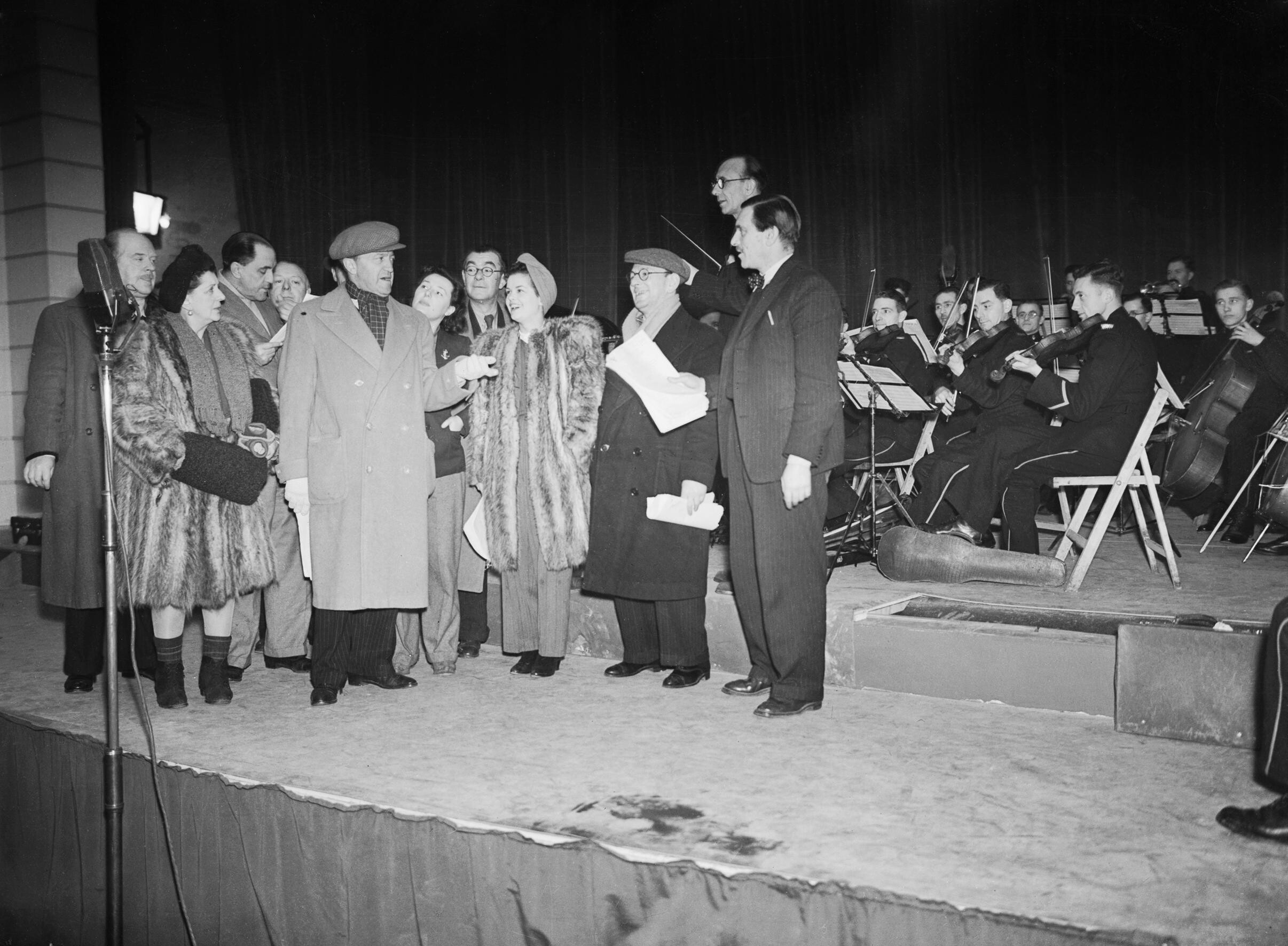 The British comedian Tommy Handley rehearses with actors from his ITMA show and the Royal Marines band during a visit to the Home Fleet at Scapa Flow, January 1944. Wartime Entertainers: The British comedian Tommy Handley rehearses with actors from his ITMA show and the Royal Marines band during a visit to the Home Fleet at Scapa Flow. ITMA (full title 'It's That Man Again') was one of the most popular radio shows of the war. Its topical comedy was based upon a series of humorous encounters between well known wartime stereotypes.